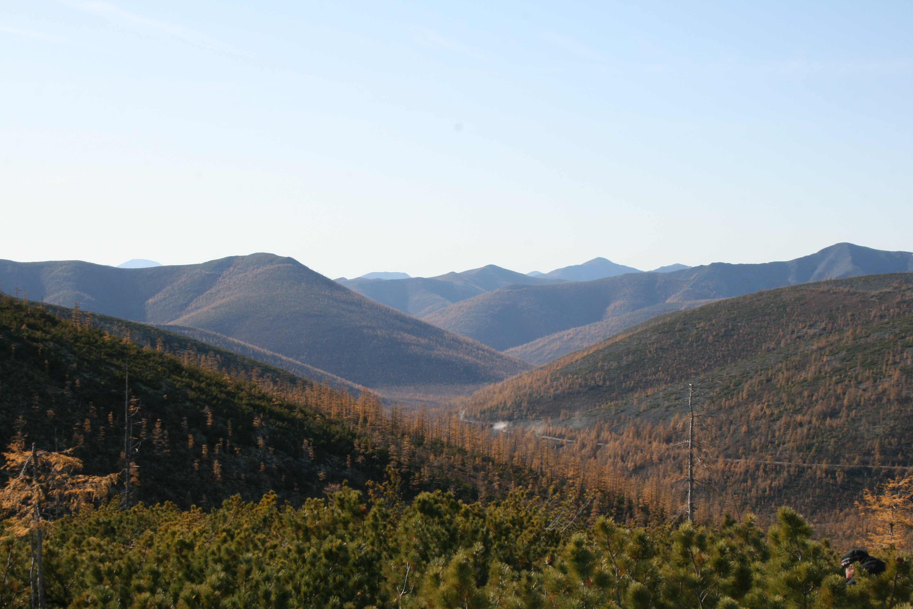 Susuman mountain area with taiga forest habitat — in Magadan Oblast.